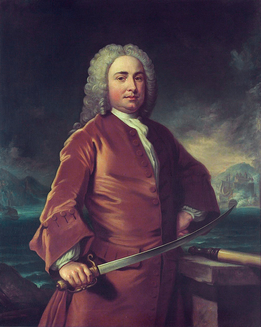 Commodore Charles Brown (ca. 1678-1753) oil on canvas 127 x 101.6 cm probably 1740